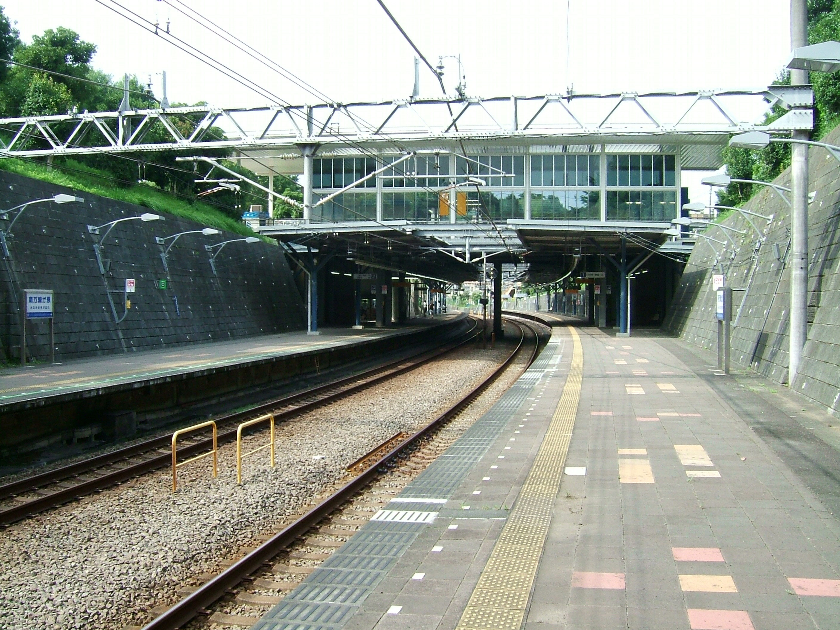 The platforms at Minami-Makigahara Station on the Sagami Railway Izumino Line in Asahi-ku, Yokohama, Japan